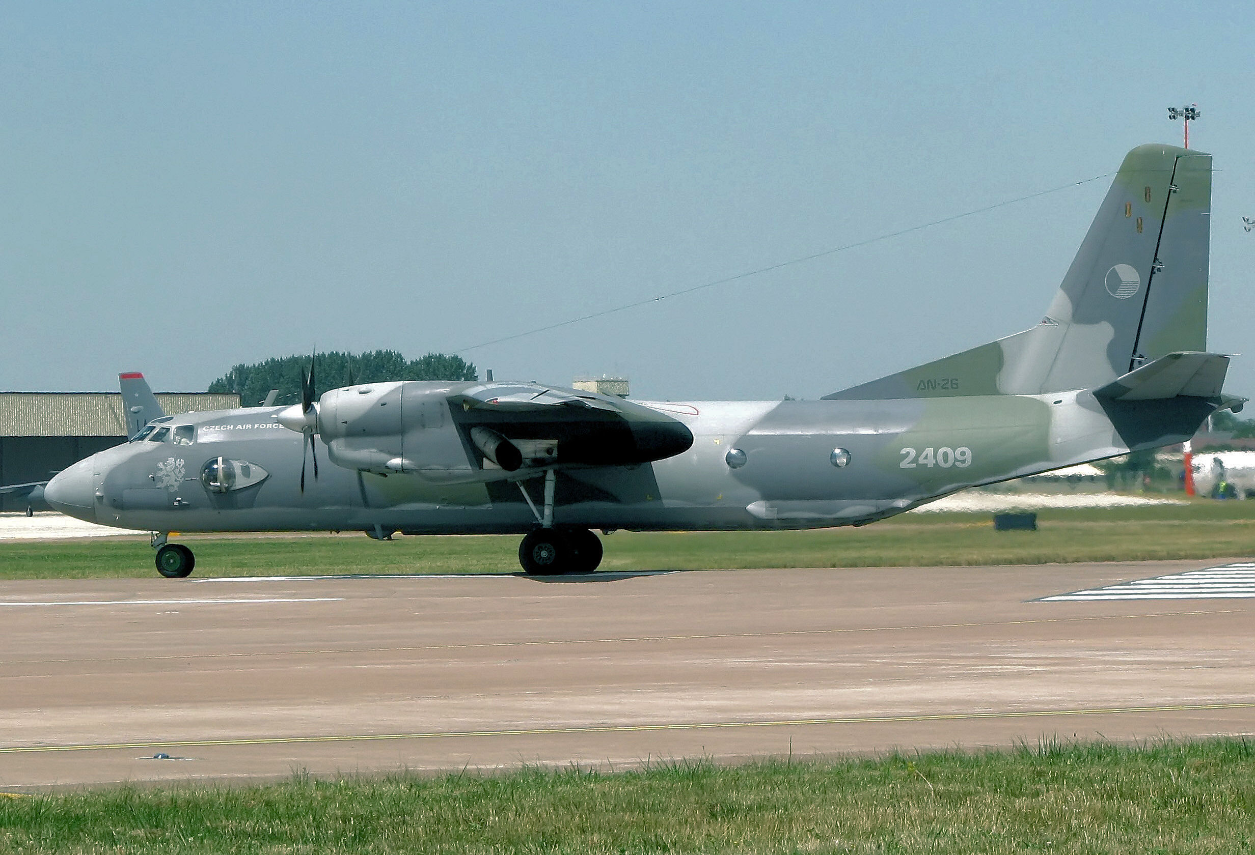 Antonov An-26 of the Czech Air Force (identifier 2409) taxis for takeoff at the Royal International Air Tattoo, Fairford, Gloucestershire, England.